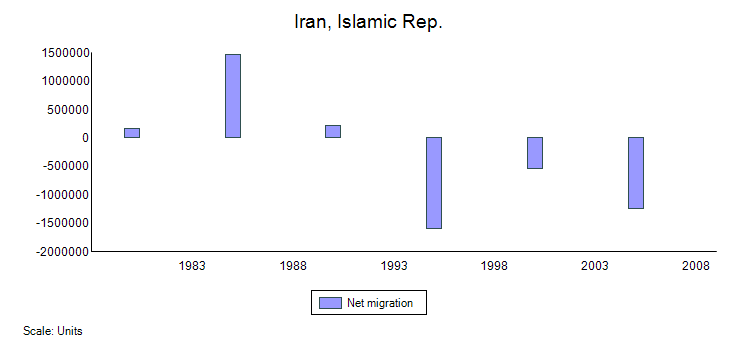 Iran: Net Migration (1979-2008). A positive number in the chart means that people are moving (back) to Iran.